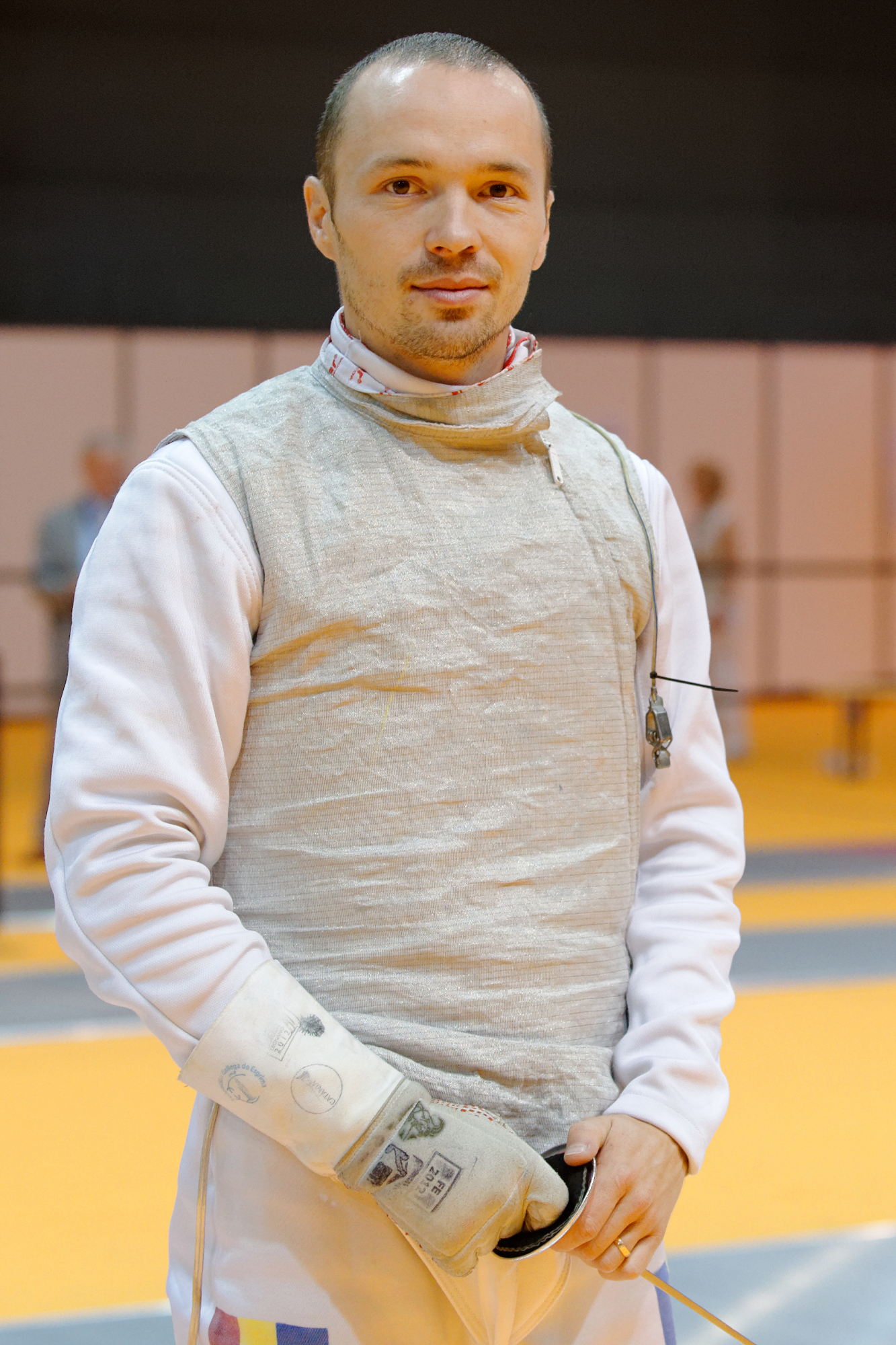 Radu Dărăban of Romania during the men's team foil event at the European Fencing Championships at Rhénus Sport in Strasbourg on 13 June 2014.